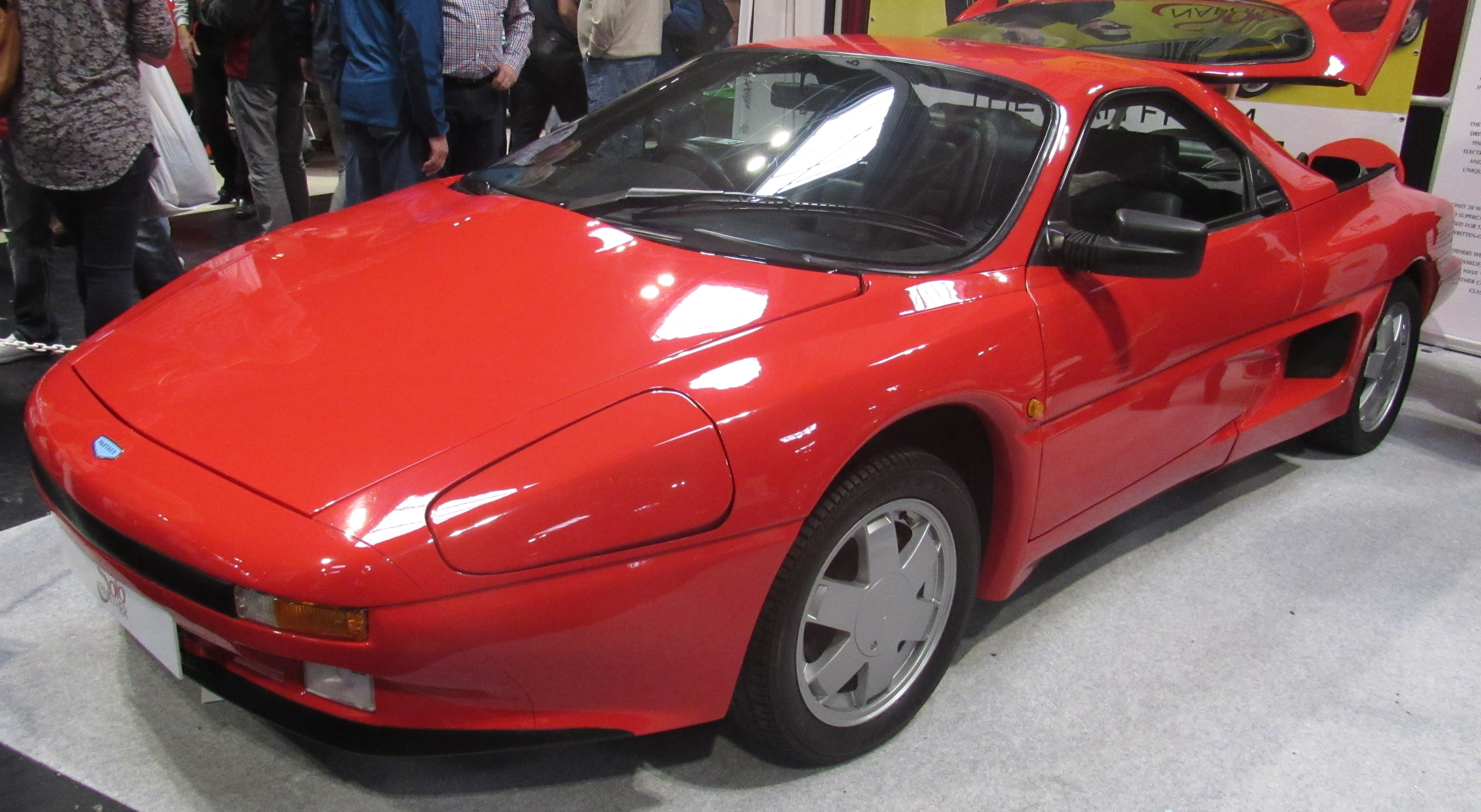 1990 Panther Solo 2 2.0 Taken at the NEC Classic Motor Show 2017